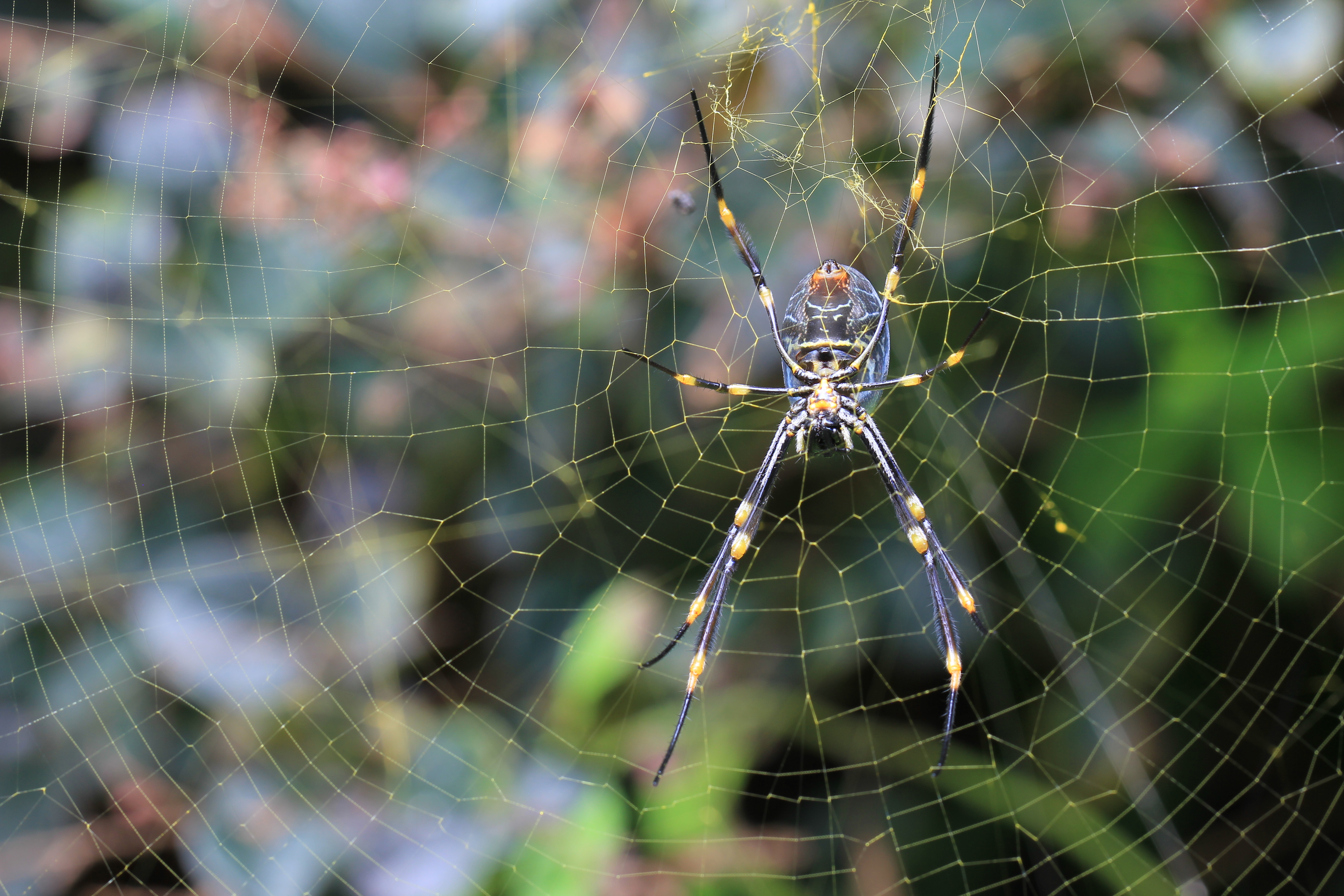 A female Nephila plumipes, Coastal Golden Orb Weaving Spider, in the Royal Botanic Gardens, Sydney, New South Wales, Australia. This was identified by the 'knob' on the front of the sternum (the heart shaped plate on the underside of the body between the legs). Australian Museum